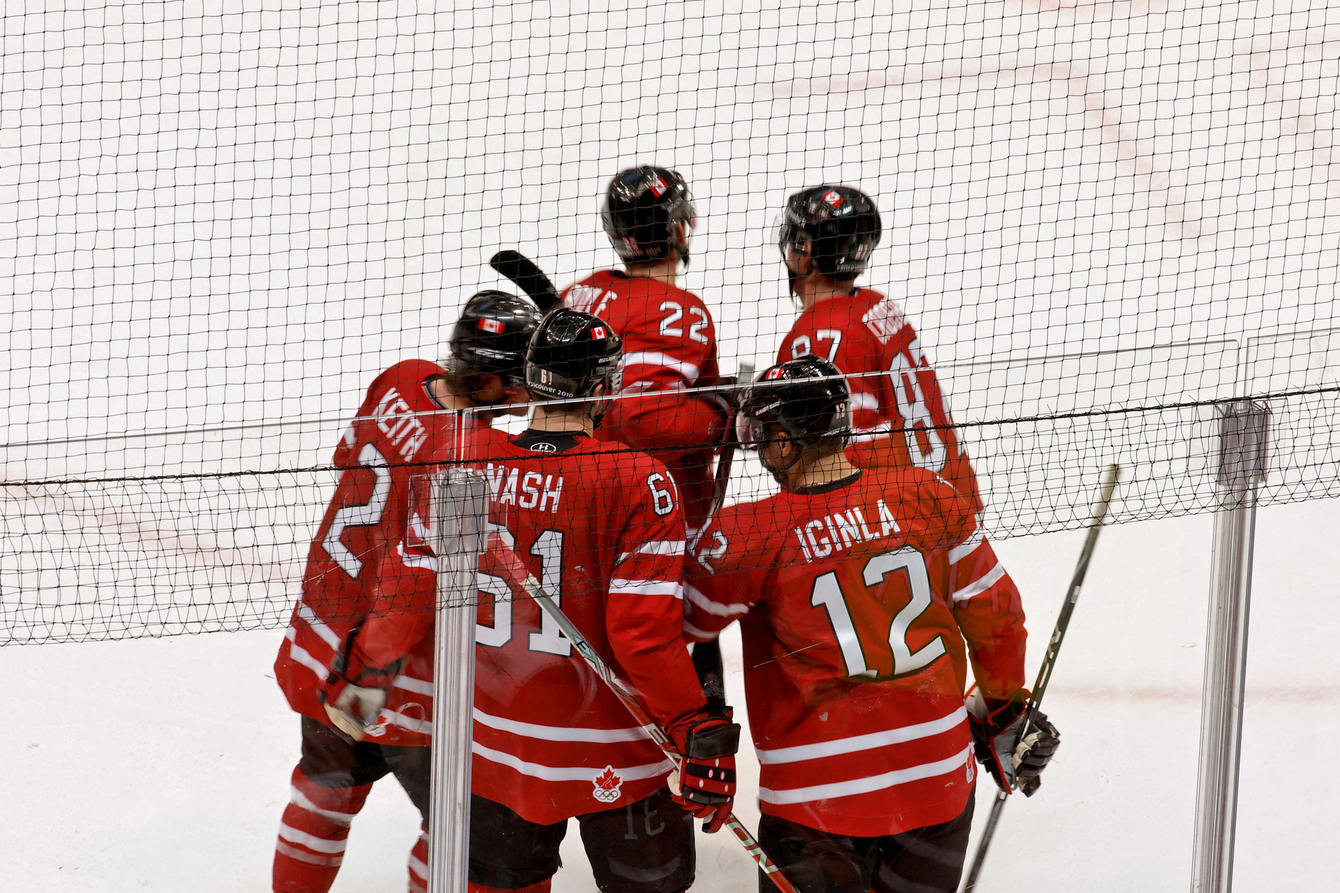 Canada players Duncan Keith (#2, left), Rick Nash (#61, center), Jarome Iginla (#12, right), Dan Boyle (#22, back left) and Sidney Crosby (#87, back right) celebrate a goal against the United States during the 2010 Winter Olympics.